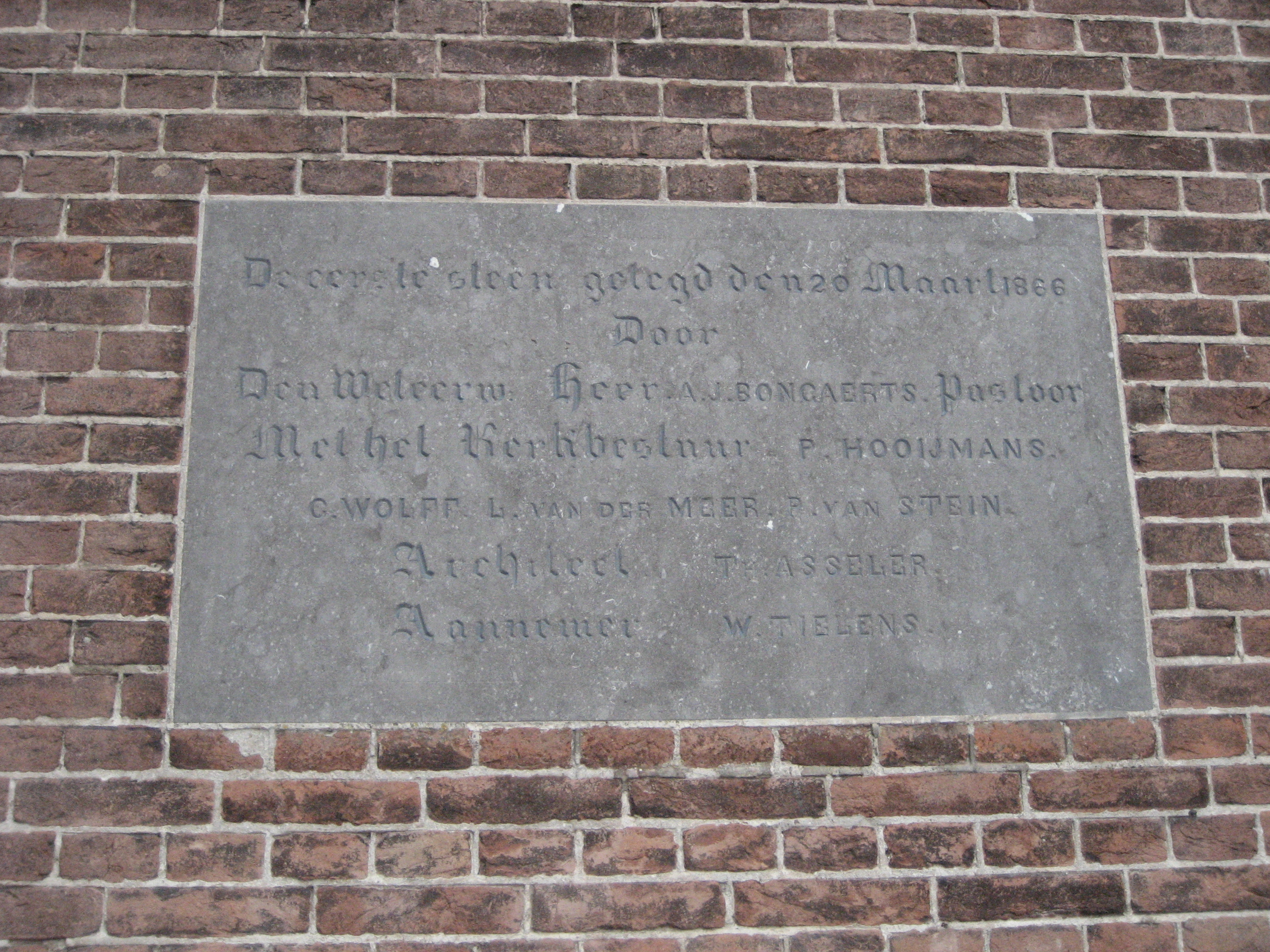 Sint Laurentius Church, Voorschoten (The Netherlands). First stone